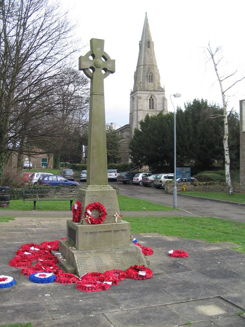 War memorial, 'Old' Corby The wreaths are mainly from veterans associations. Church of Saint John the Baptist behind